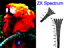 A rendering of Image:Parrot.red.macaw.1.arp.750pix.jpg on the ZX Spectrum standard display.